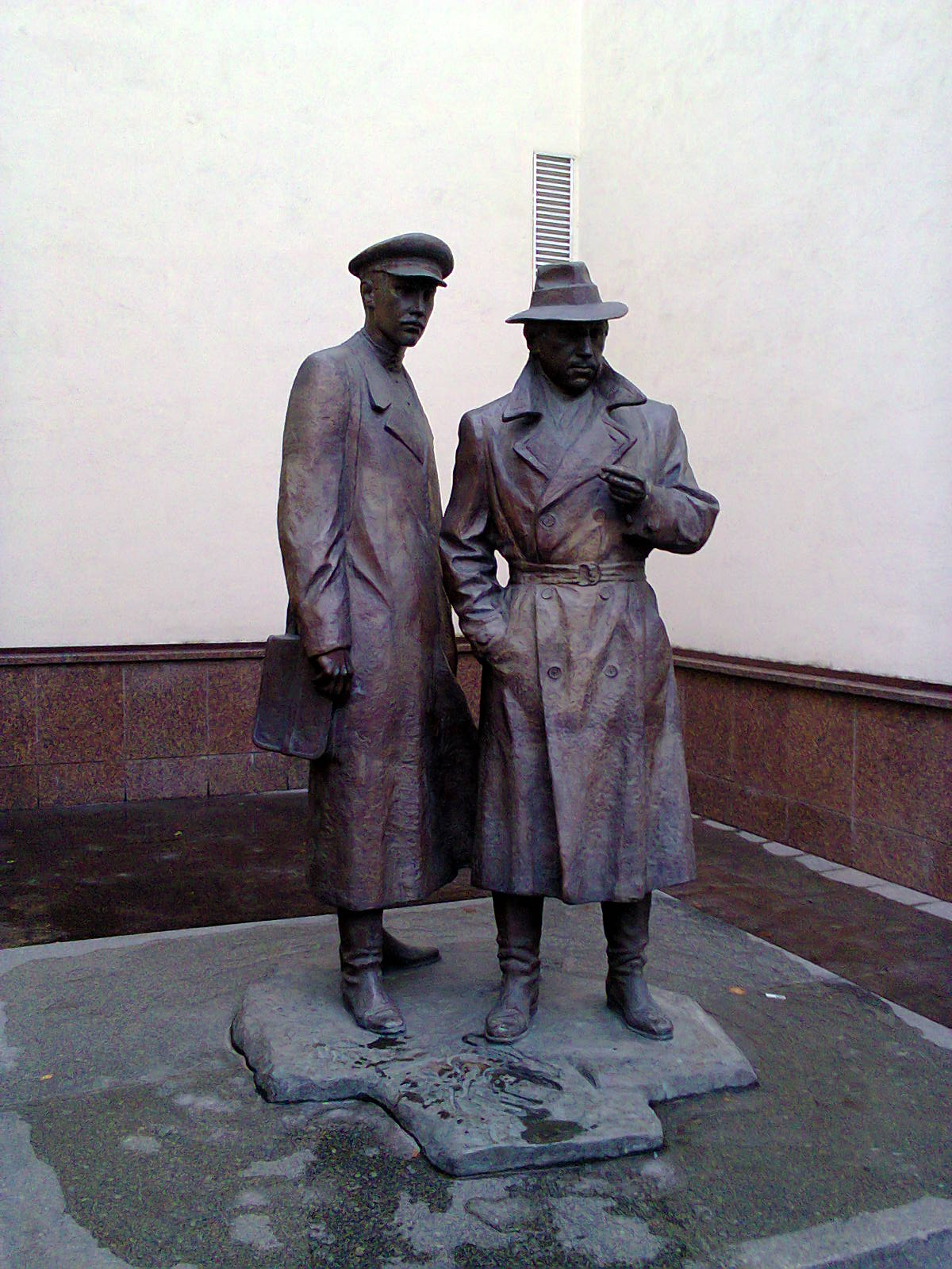 a monument to Sharapov and Zhiglov